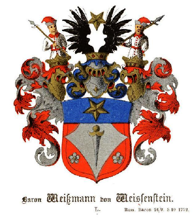 Coat pf arms of Weissmann_von_Wiessenstein family